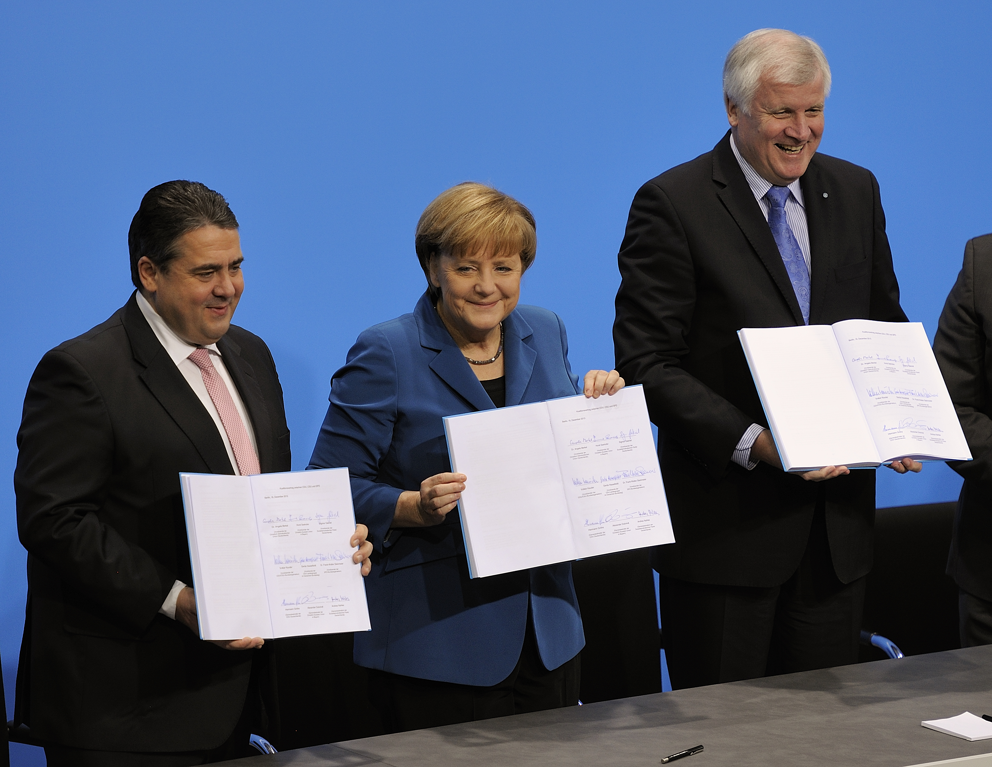 Signature of the coalition agreement for the 18th election period of the Bundestag. From left to right: Sigmar Gabriel, Angela Merkel, Horst Seehofer.